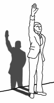 A sketch to illustrate the picture composition of a scene in the film "Il conformista" (1970).